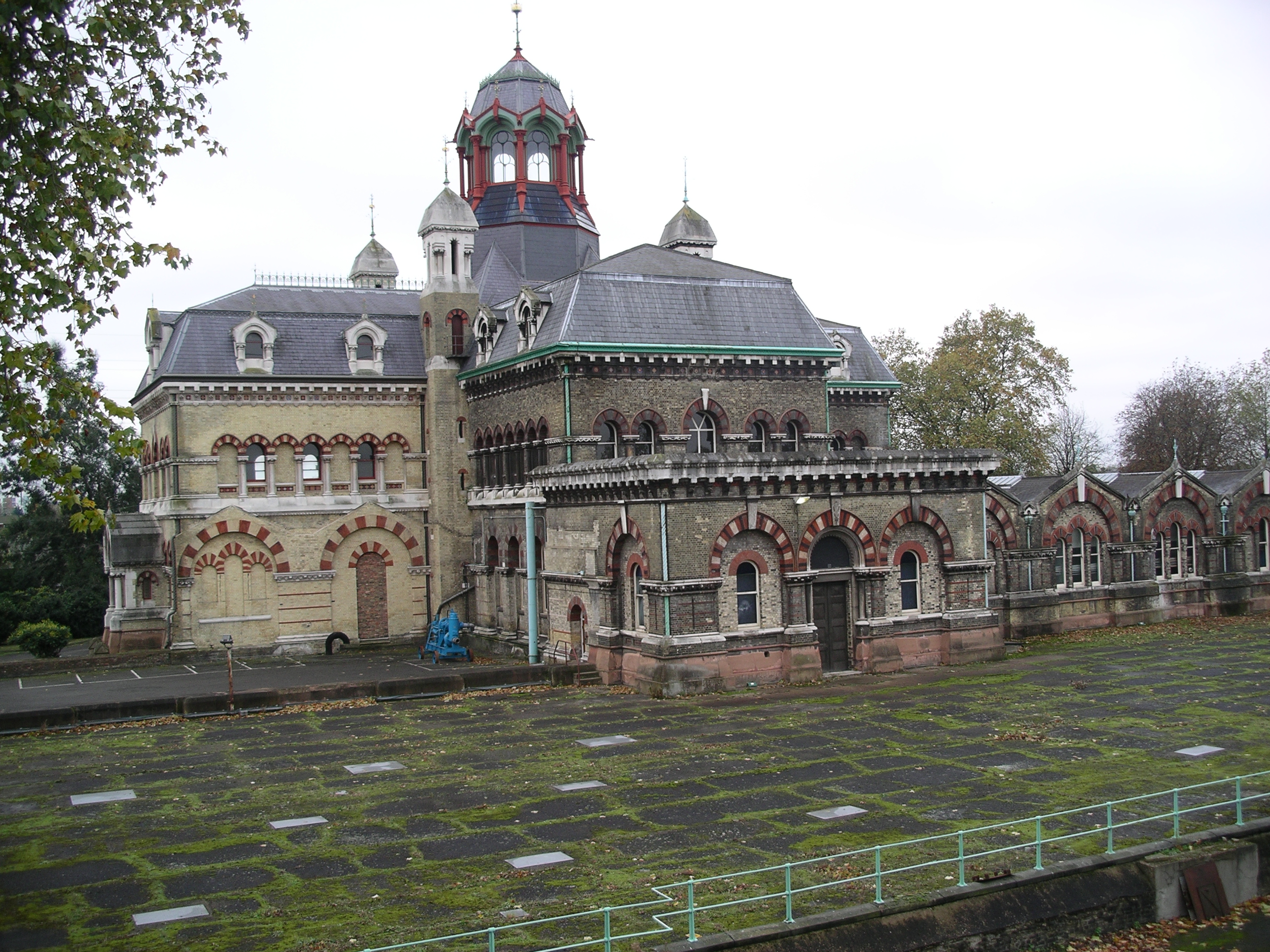 The Victorian Abbey Mill pumping station on the London trunk sewerage system - now disused